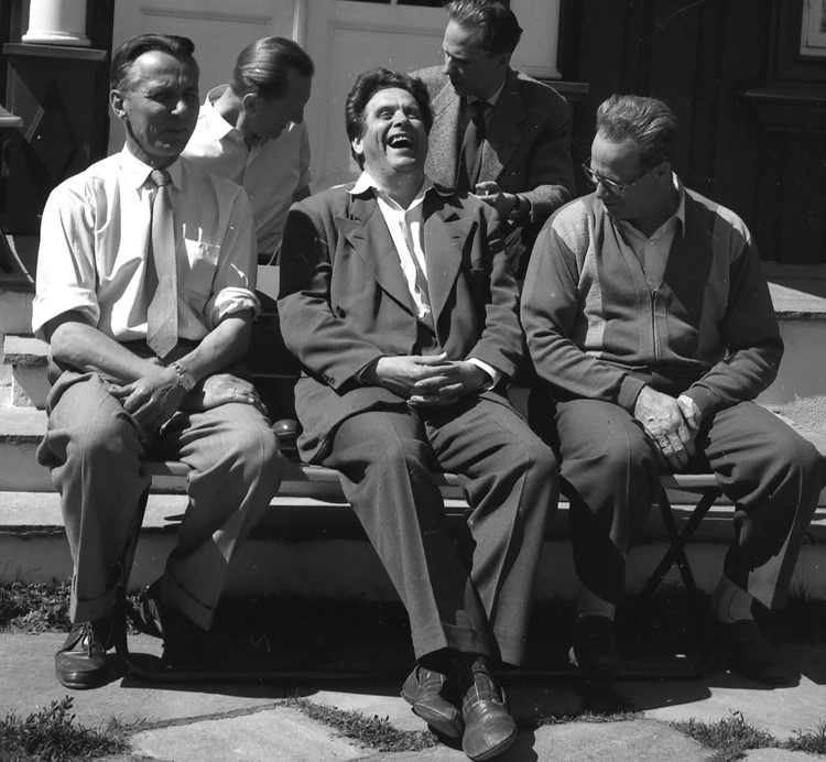 Norwegian conductor and violinist Arvid Fladmoe (in the center)